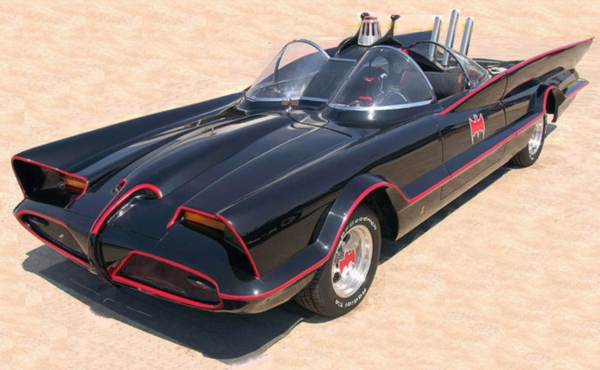 Photo of a Batmobile from the 1960s television series as shown in New York City, USA on Friday May 30th, 2003. The car was being exhibited at a Special Presentation of Cars Used in Movie's and Television. Original photo taken by Jennifer Graylock. This photo has been cropped and had its background cleared up. When the original file was uploaded to Wikimedia Commons, it was available from Flickr under the stated license. The Flickr user has since stopped distributing the file under this license. Creative Commons licenses cannot be revoked, so the file is still free to use under the terms of the license stated here.